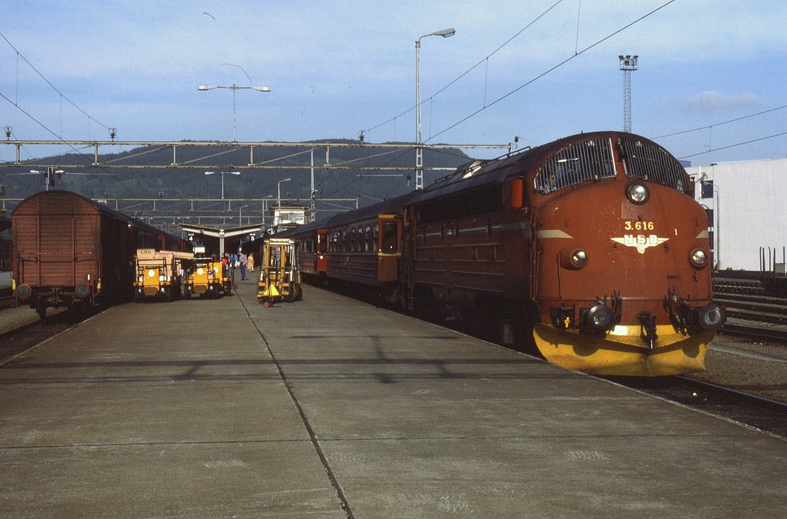 Nohab built Di3 no. 3.616 at Trondheim on 10 June 1986 heading the 08:15 service to Bodø.